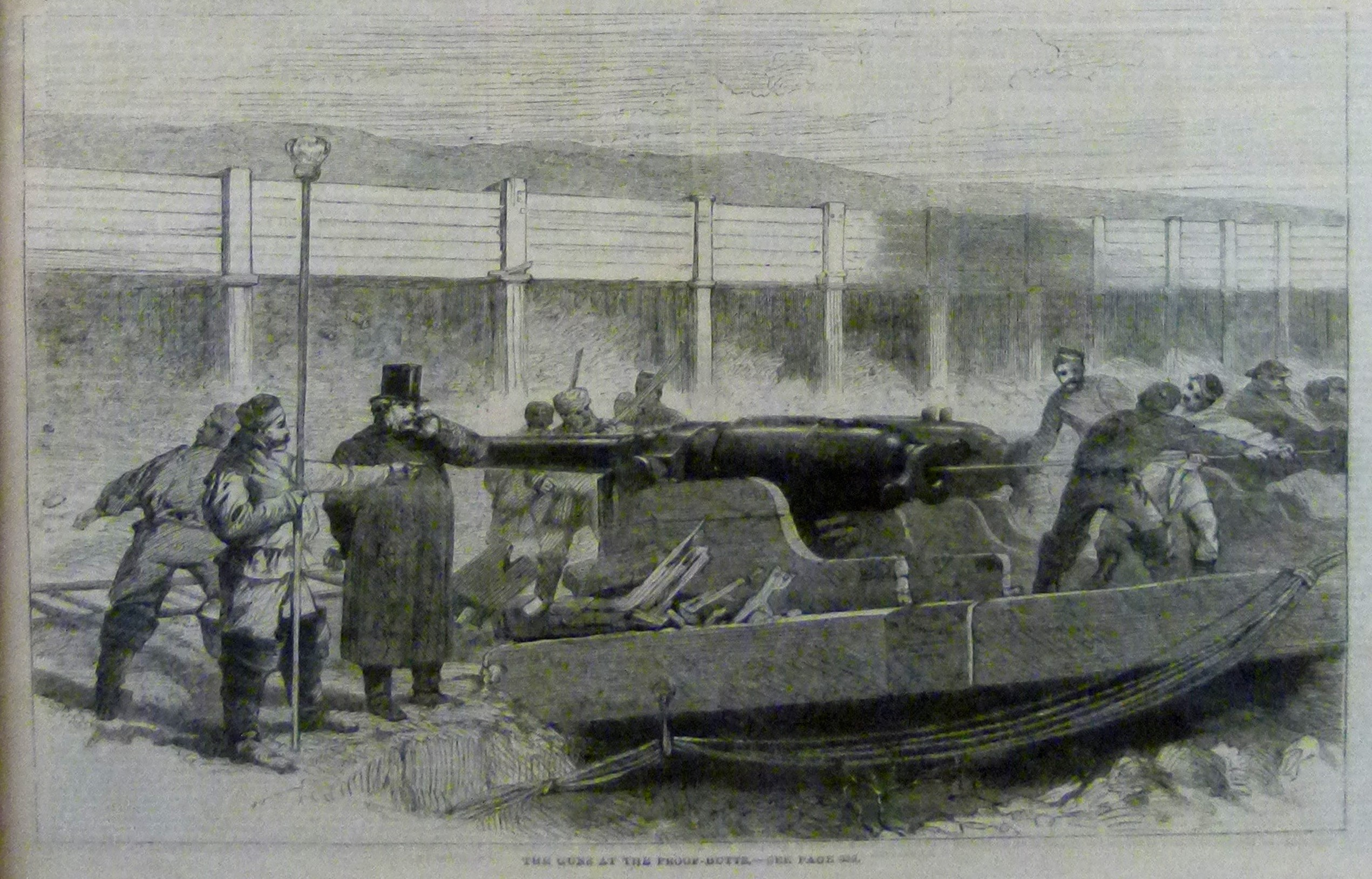 Proof testing the Armstrong gun at the Royal Arsenal in Woolwich. The Illustrated London News, 5 April, 1862. Greenwich Heritage Centre, Woolwich, south east London, UK. Detail of Greenwich Heritage Centre, History of Royal Arsenal 2.jpg